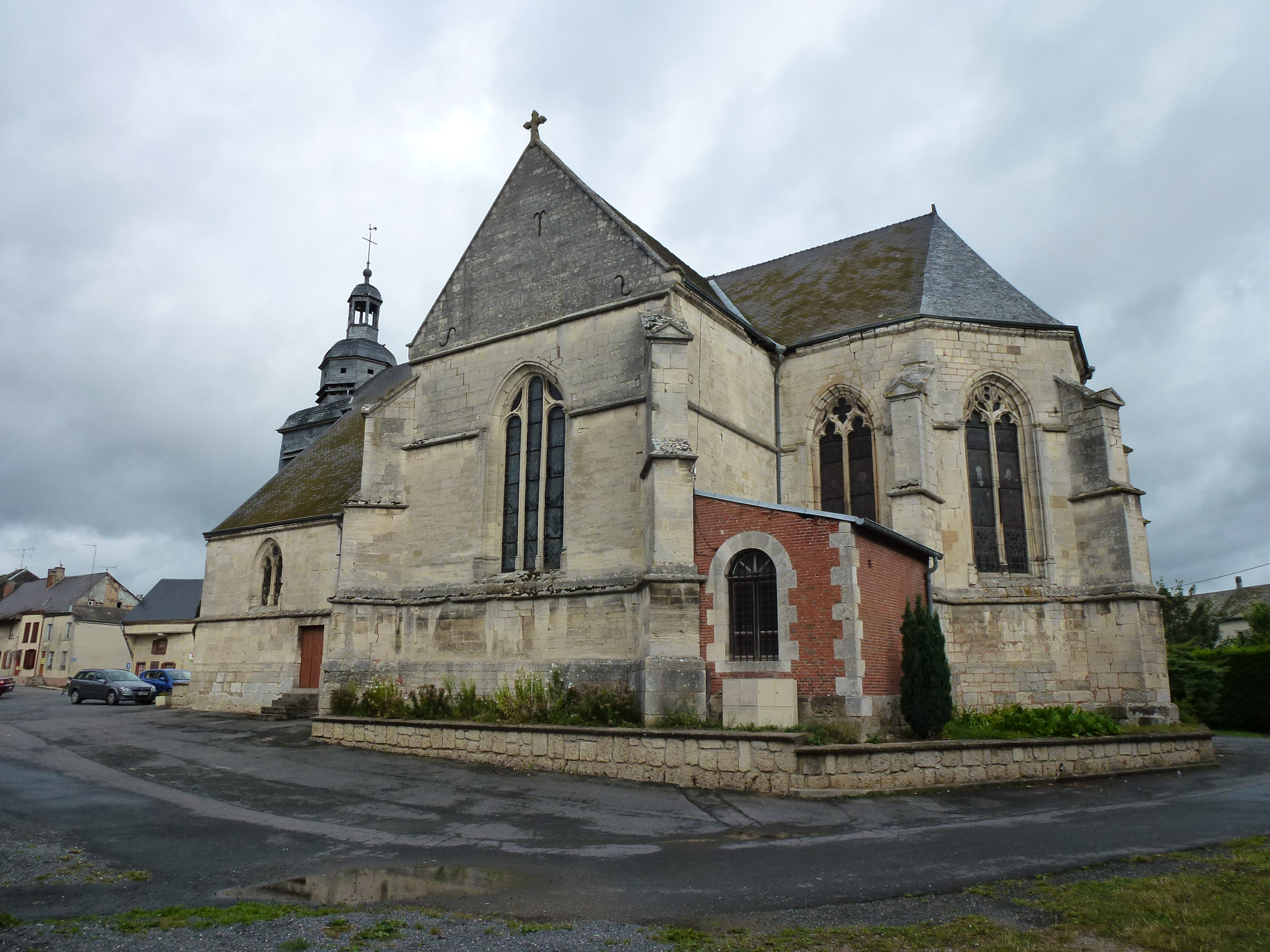 Wasigny (Ardennes) église Saint-Rémi